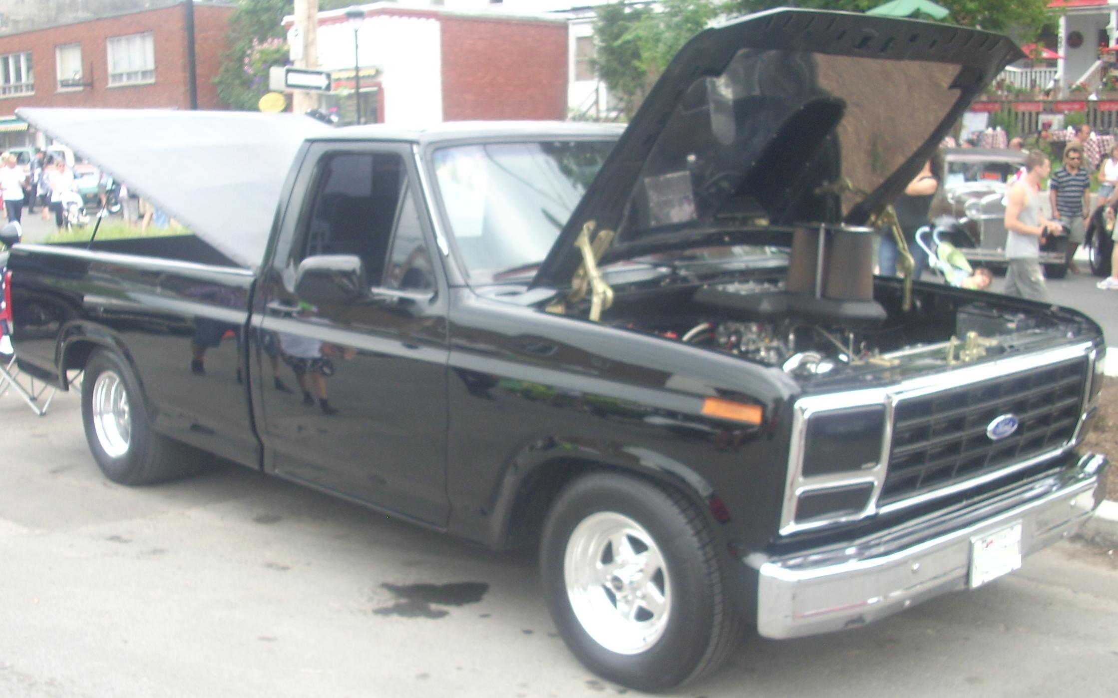 1981 Ford F-150 photographed in Ste. Anne De Bellevue, Quebec, Canada at Cruisin' At The Boardwalk 2010.